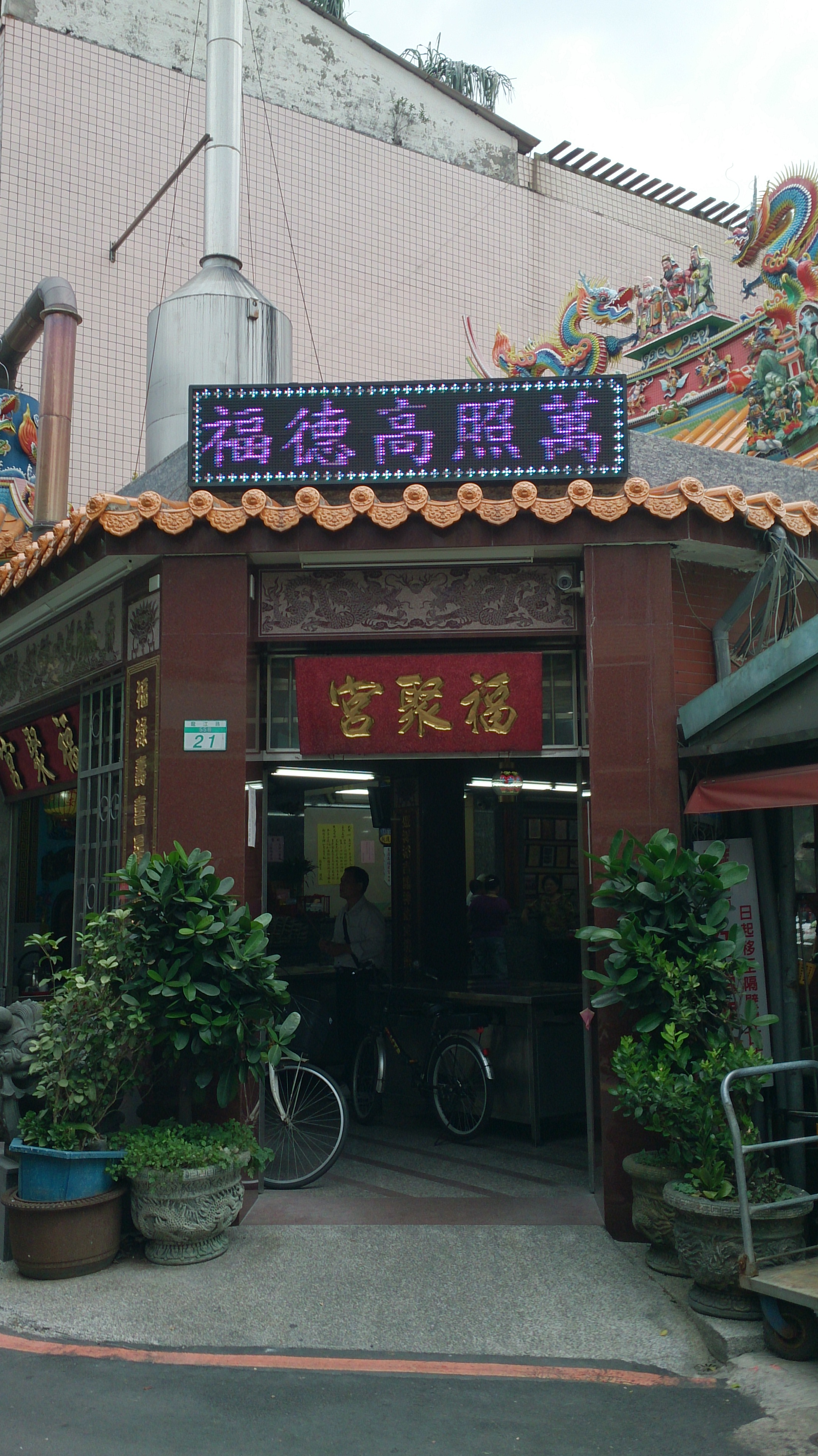 Fujyu Gong in Zhonglun, Taipei